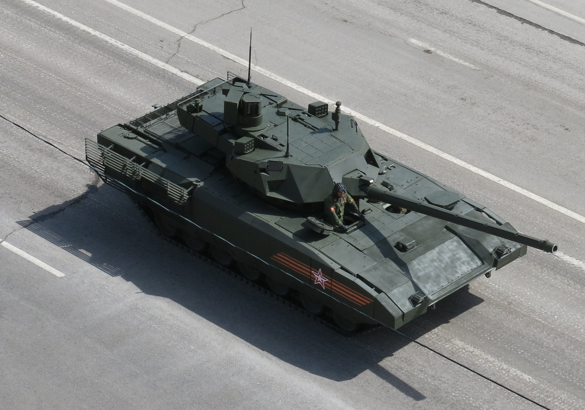 Prototyp of russian main battle tanke T-14 Armata, view from above, Victory parade Moscow 2015